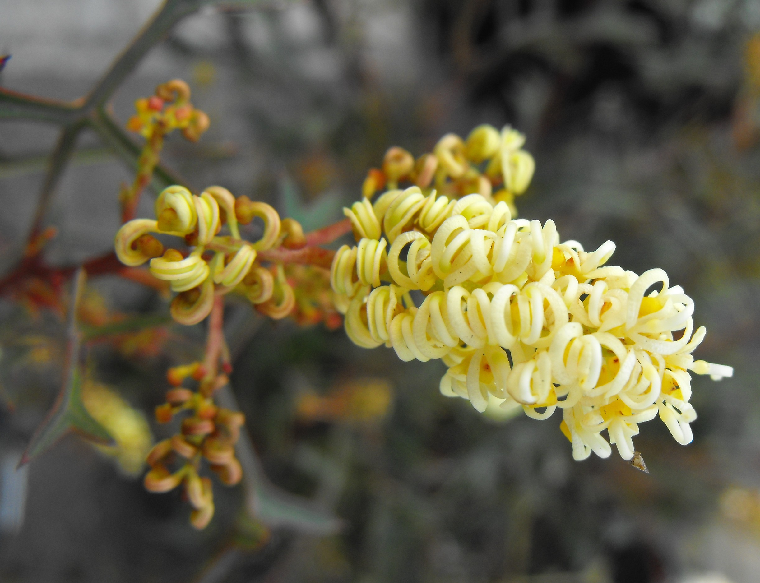 Grevillea synapheae 'Picasso' at the San Diego Home & Garden Show, California, USA. Identified by exhibitor's sign.